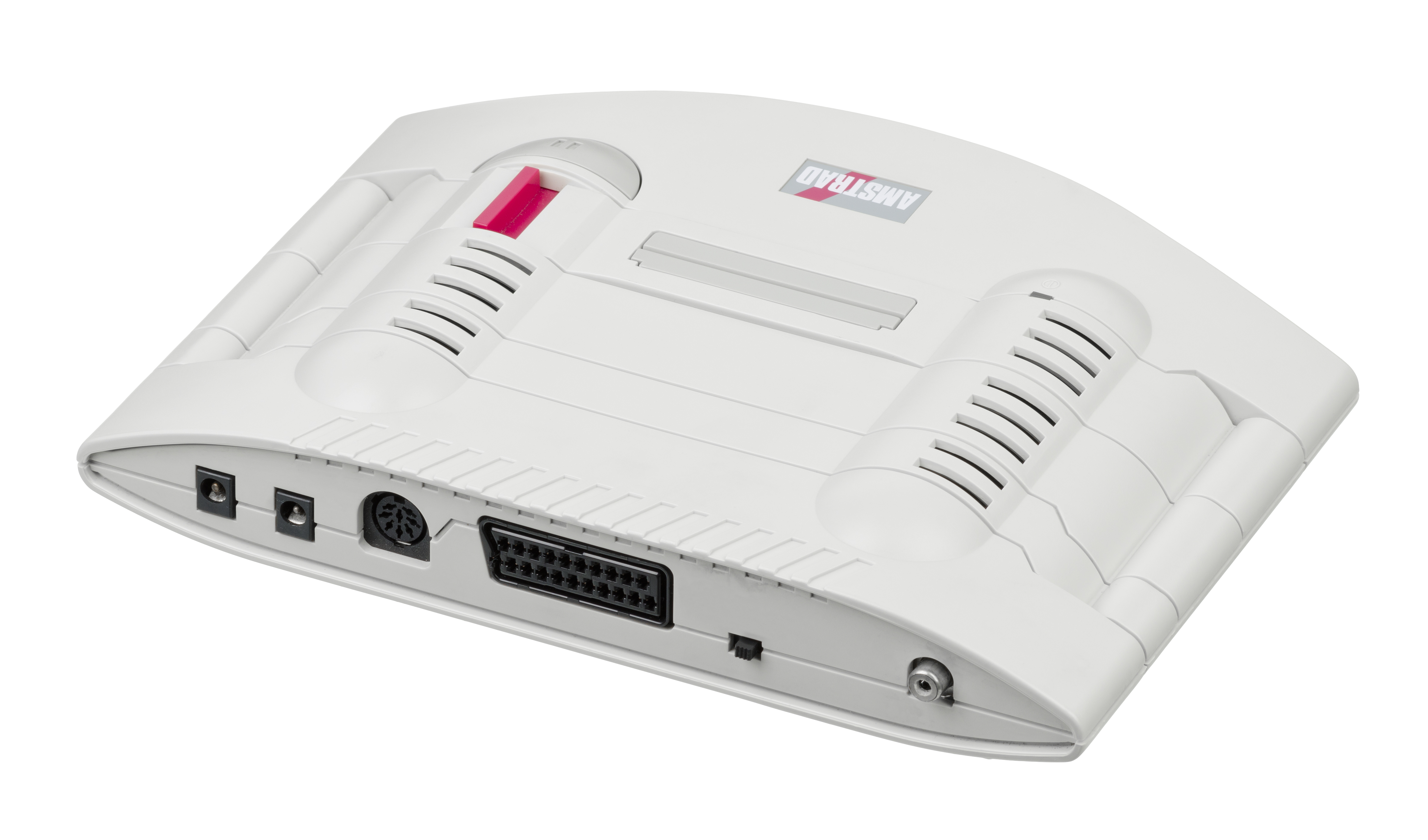 The Amstrad GX4000, a video game console released by Amstrad in 1990. This Europe-exclusive console was a repackaging of Amstrad's line of CPC Plus computers, offering direct conversions of CPC Plus titles. It was only on the market for a short while before being discontinued.